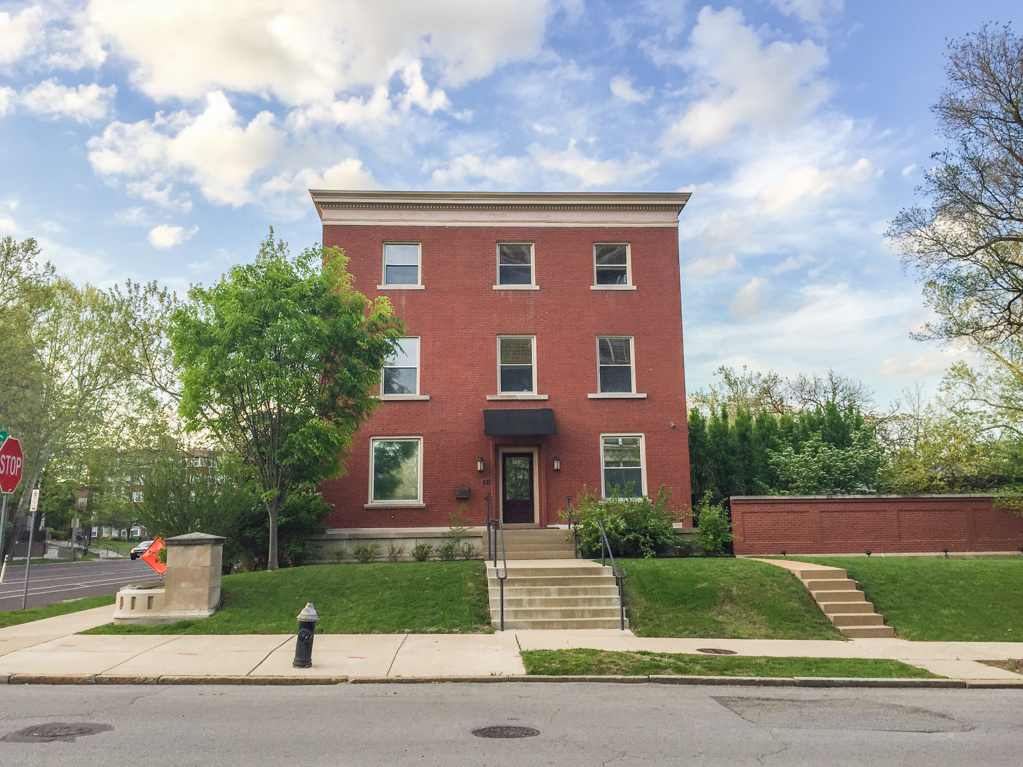 Show-Me Institute, Saint Louis, Missouri